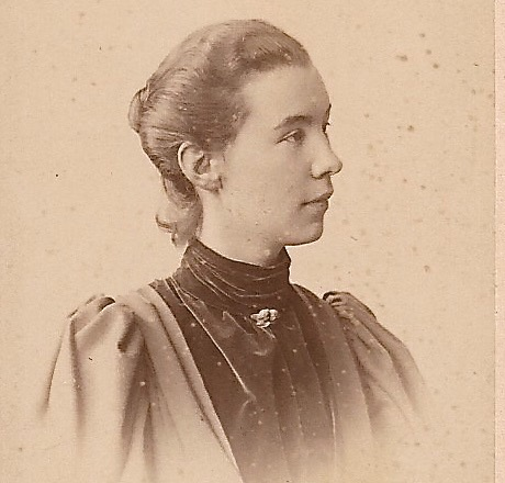 Dr. med. Jenny Koller about 1895